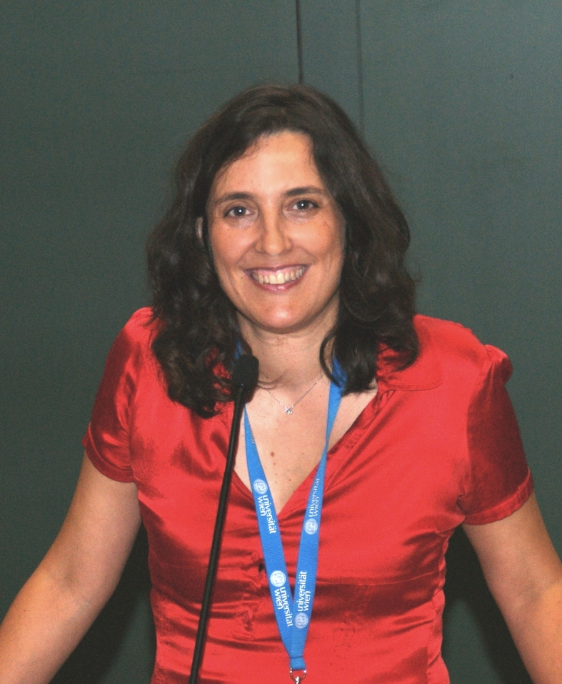 Leticia González at the 50th Symposium on Theoretical Chemistry held in Vienna 2014.